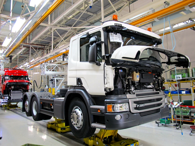 Manufacturing in the Scania factory in Södertälje, Sweden